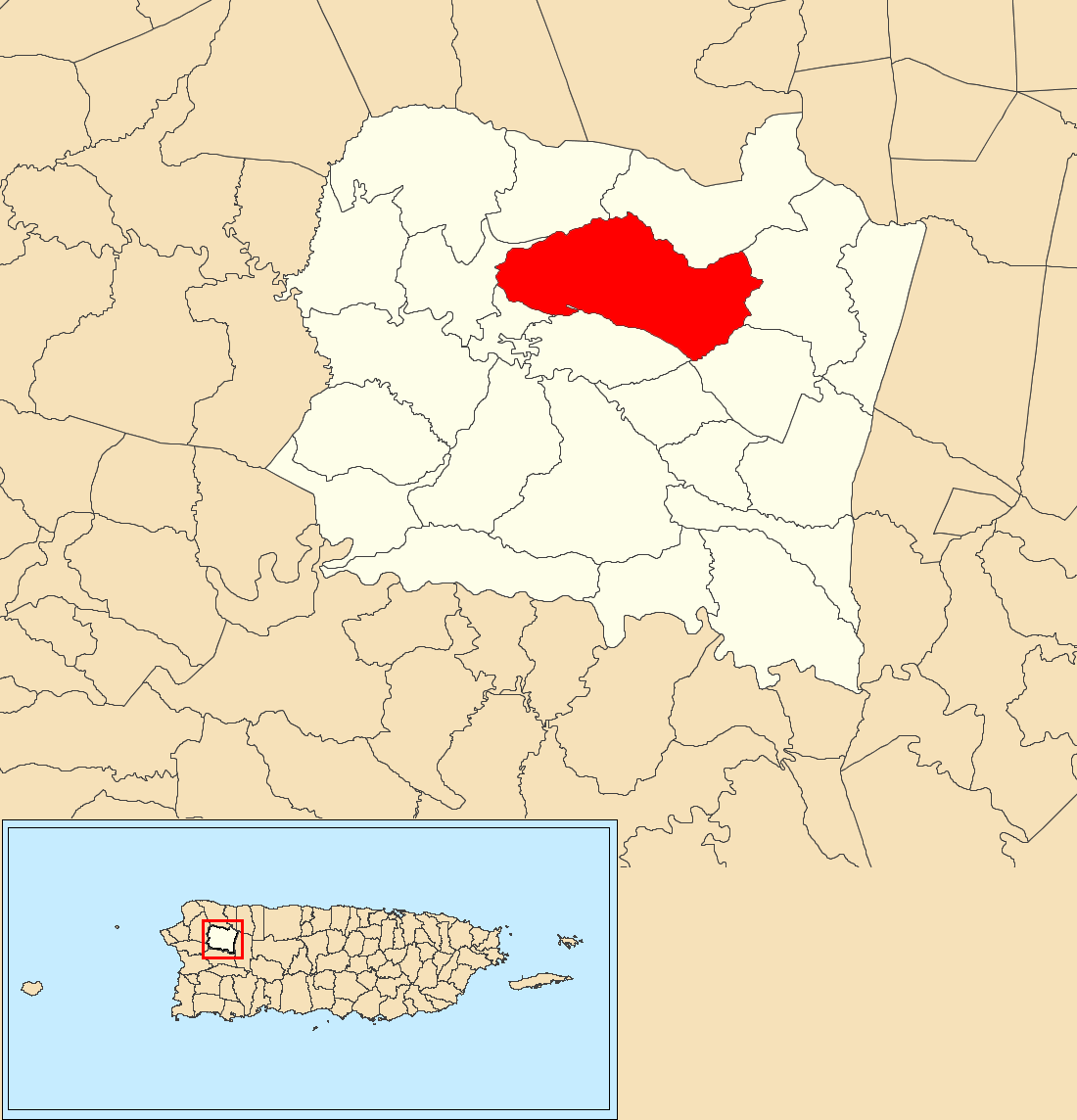 Hoya Mala, San Sebastián, Puerto Rico locator map